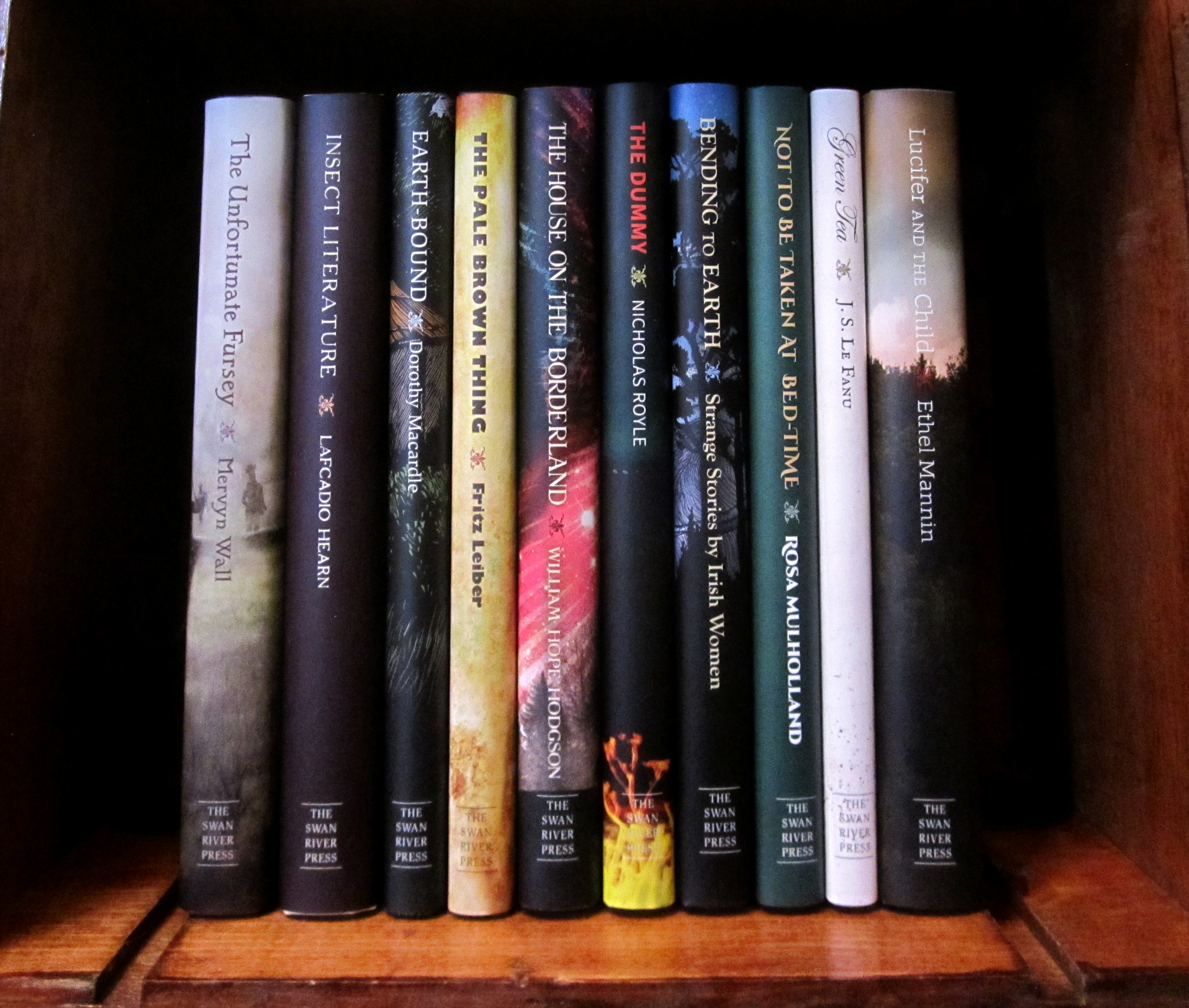 A selection of Swan River Press Titles